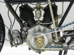 Zenith motorcycle Gradua Gear 1912